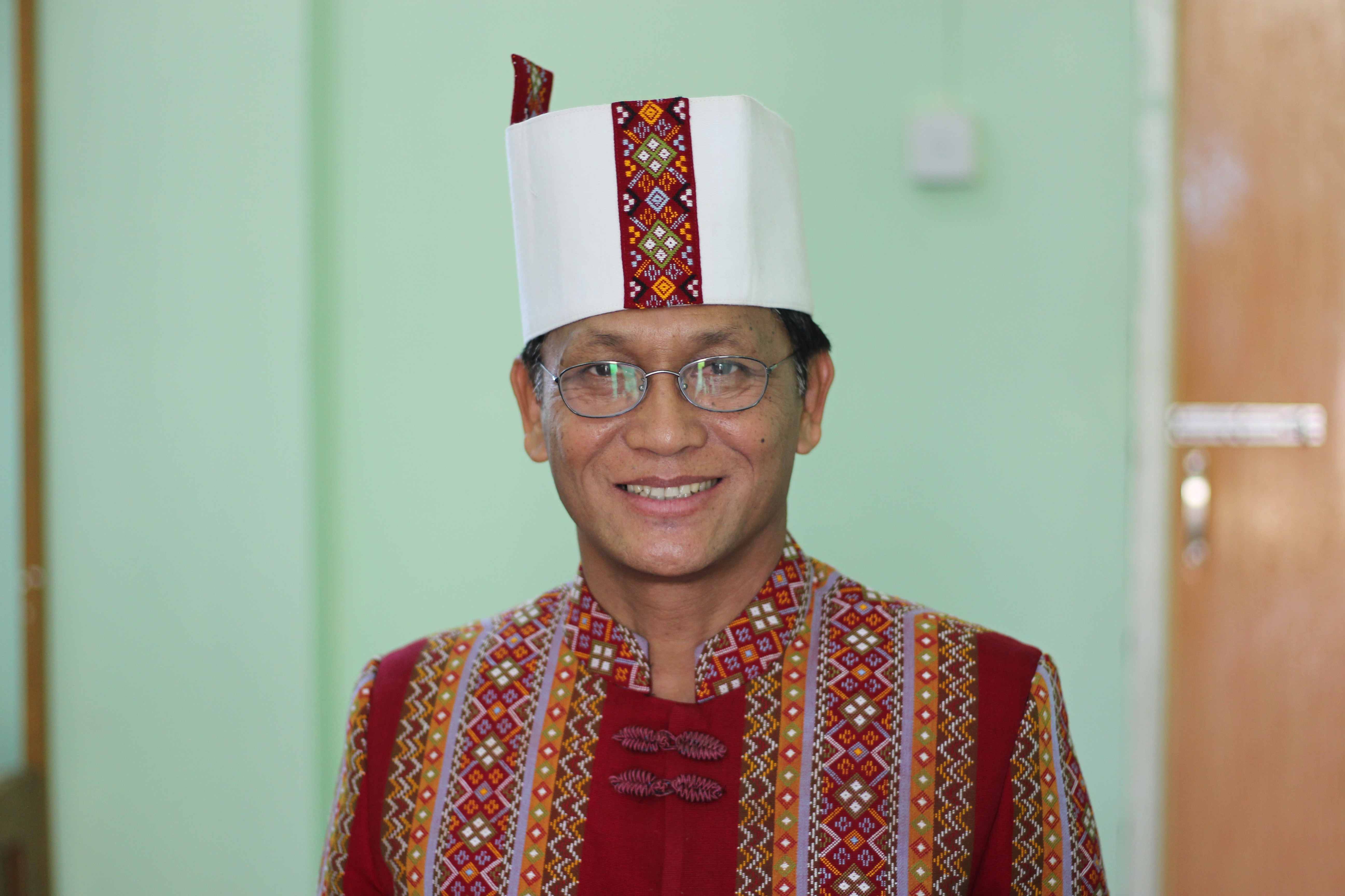 Myanmar's Vice President Henry Van Thio မြန်မာဘာသာ: မြန်မာနိုင်ငံ ဒုတိယ သမ္မတ ဦးဟန်နရီ ဗန်ထီးယူ